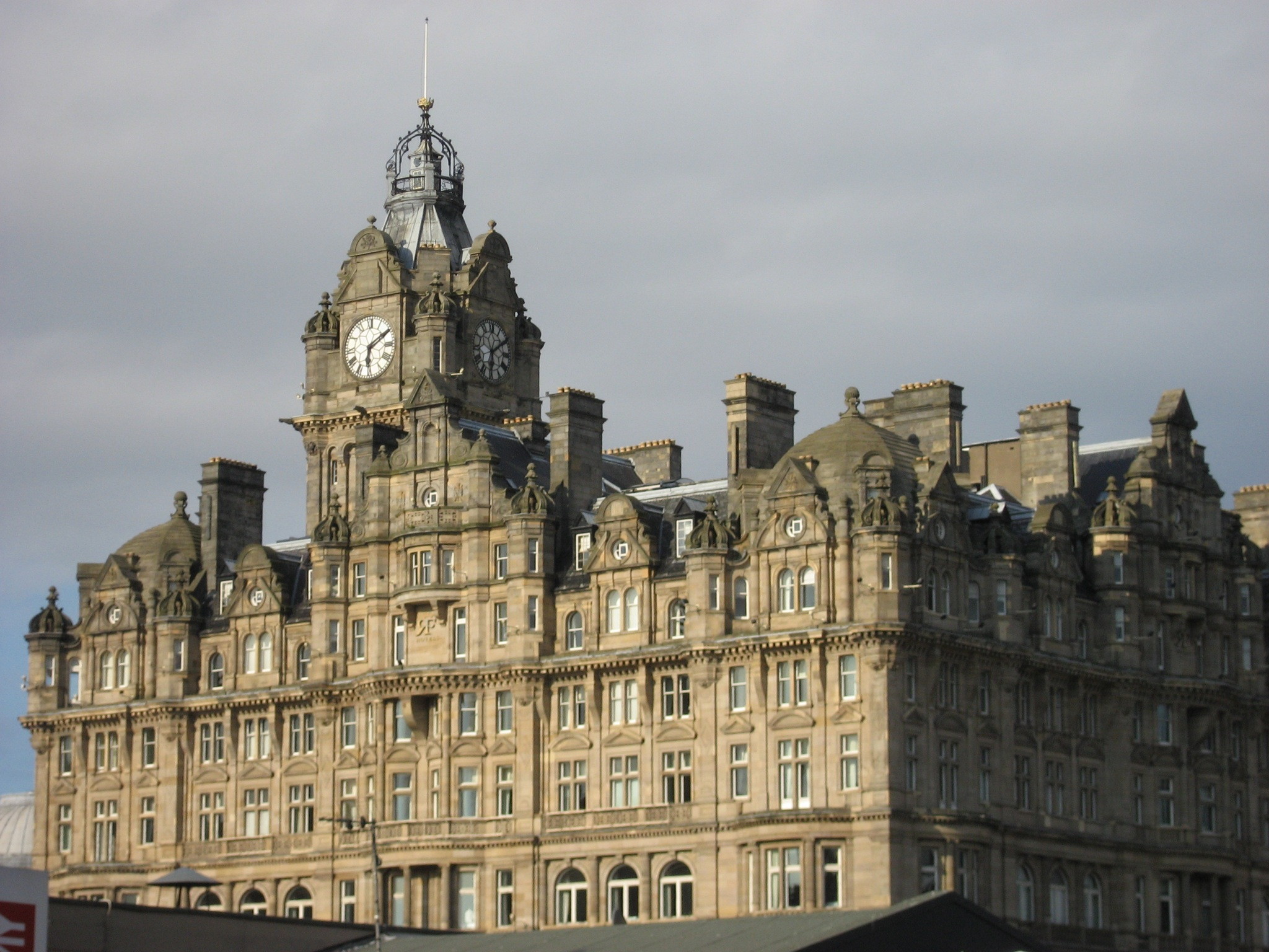 The Balmoral Hotel in Edinburgh, Scotland. This hotel sits overlooking Edinburgh's Waverley railway station. The clock on the hotel is set two minutes fast to hurry passengers along for their train - this is a throwback to the days when the hotel was owned by the North British Railway and the British Railways Board. The hotel was originally built by the North British Railway and was named the North British Hotel when complete.